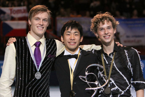 Tomáš Verner (2), Nobunari Oda (1), Adam Rippon (3) at the 2009 Trophee Eric Bompard.